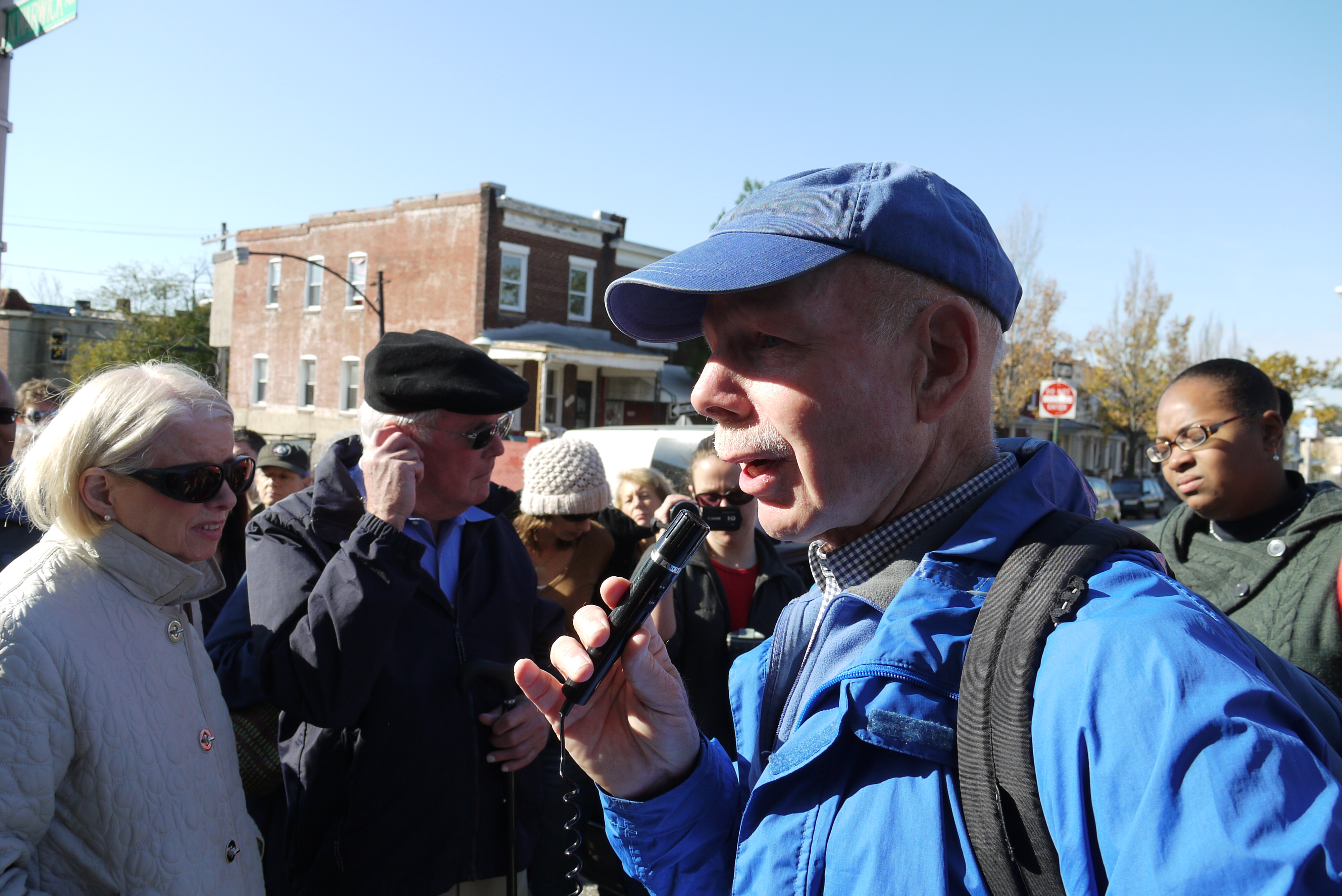 The Greater Rosemont Walking tour was led by Dr. Ed Orser, Professor Emeritus at UMBC, and members of the Evergreen Protective Association, including Kirin Smith, John Bullock, and Muriel Praileau. The Race and Place in Baltimore Neighborhoods program series was supported by the Maryland Humanities Council and the Baltimore Office of Promotion and Arts through Free Fall Baltimore. Baltimore, Maryland, United States.